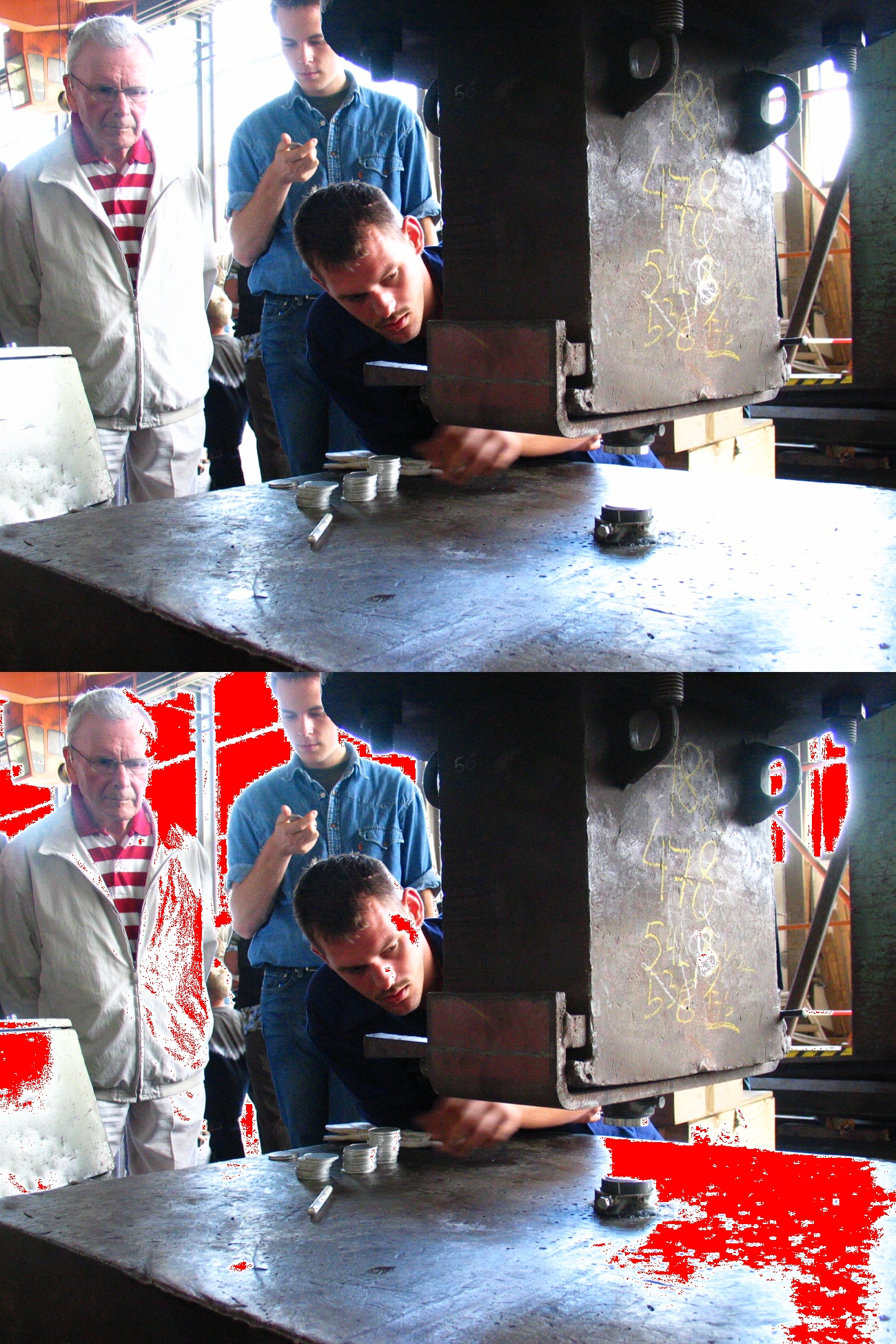 Example image showing blown-out highlights due to insufficient dynamic range of the digital camera. Top: original image, bottom 100% white replaced by red. There is no recoverable detail in the marked highlights.